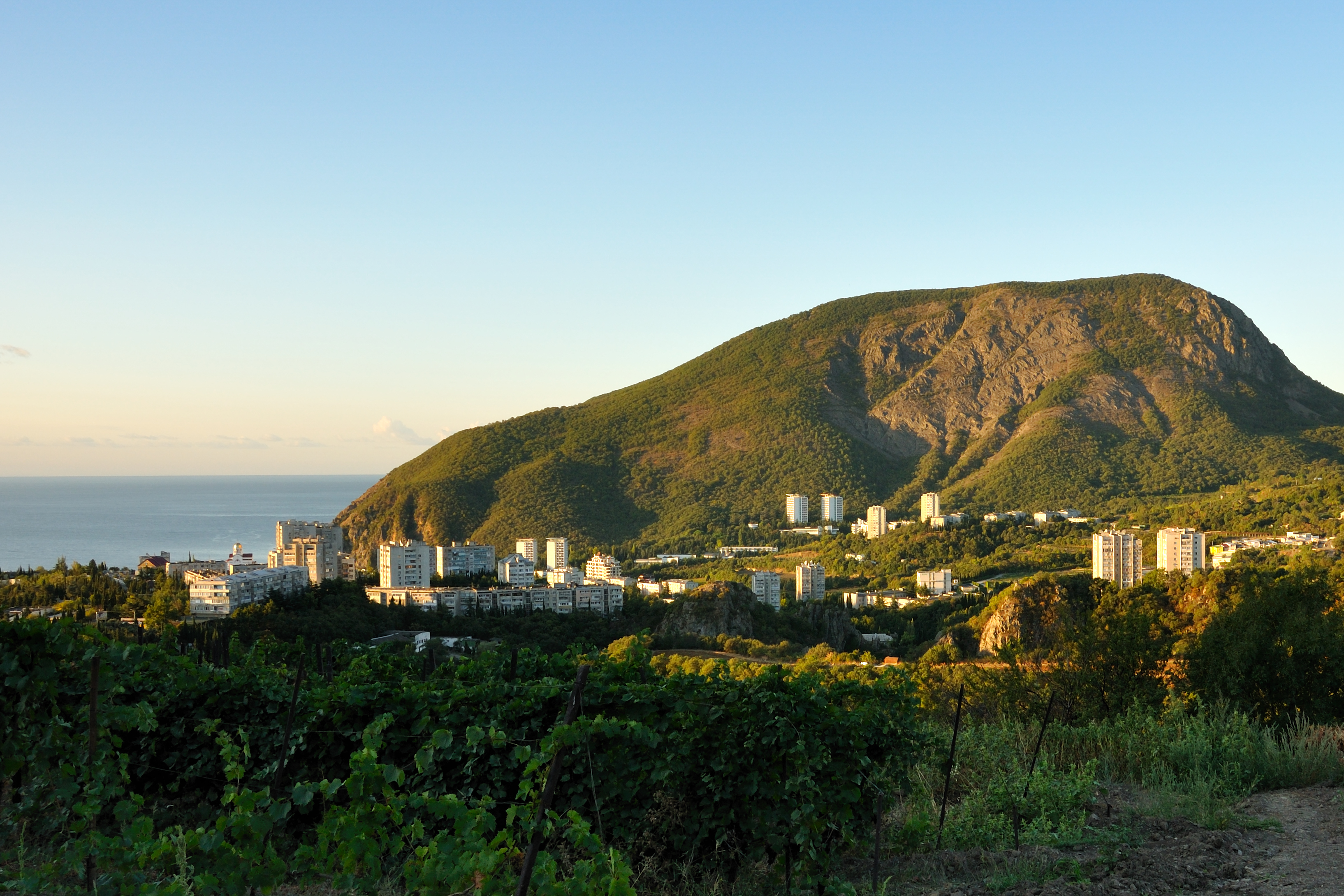 Ayu-Dag mountain - view from old road Partenit-Pushkino.